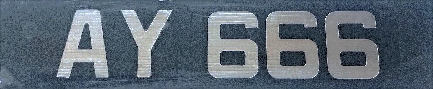 License plate of Alderney